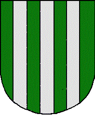 COA Ramírez